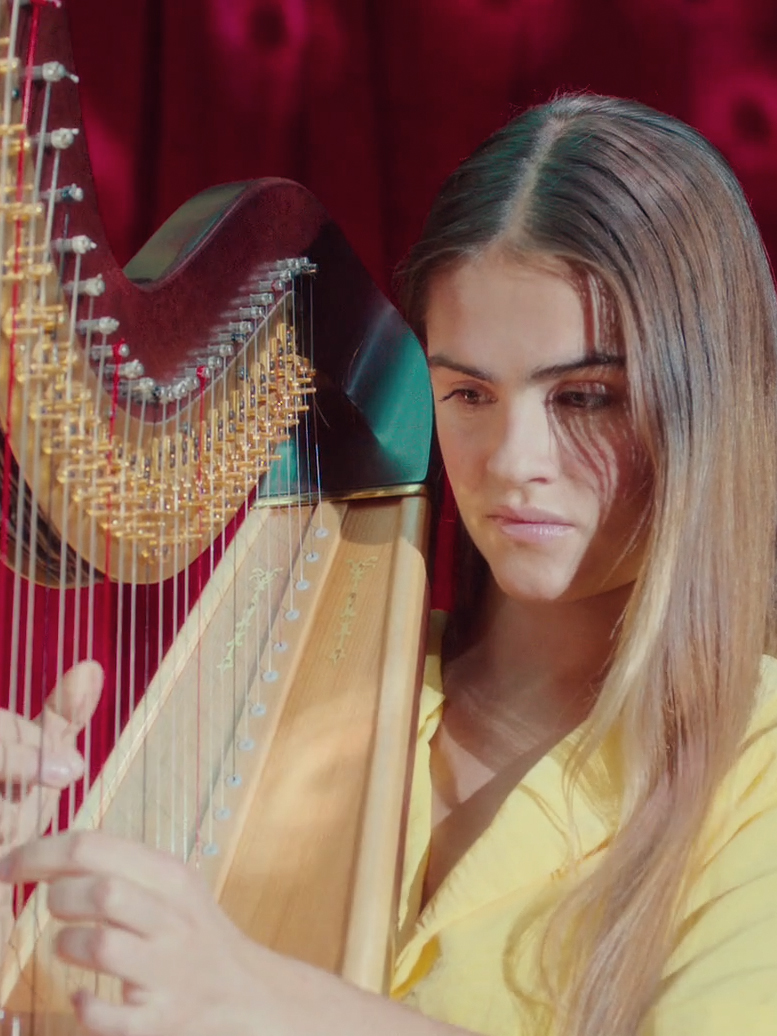 Olivia Lonsdale 21 - 09 - 2017